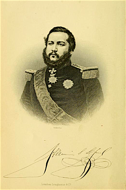 Francis Solano López ("López II"), and his autograph.